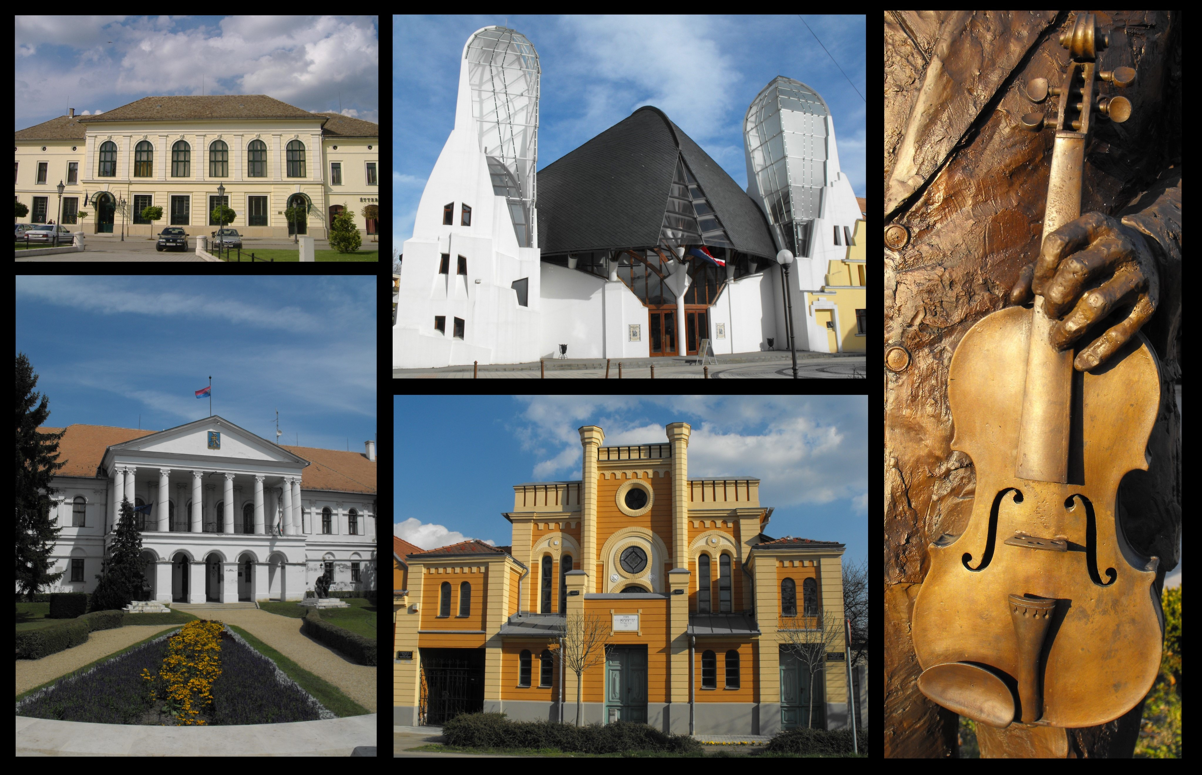 Montage with images of Makó, town in Southern Great Plain, Hungary. All of the photos appearing in the montage are my own works.